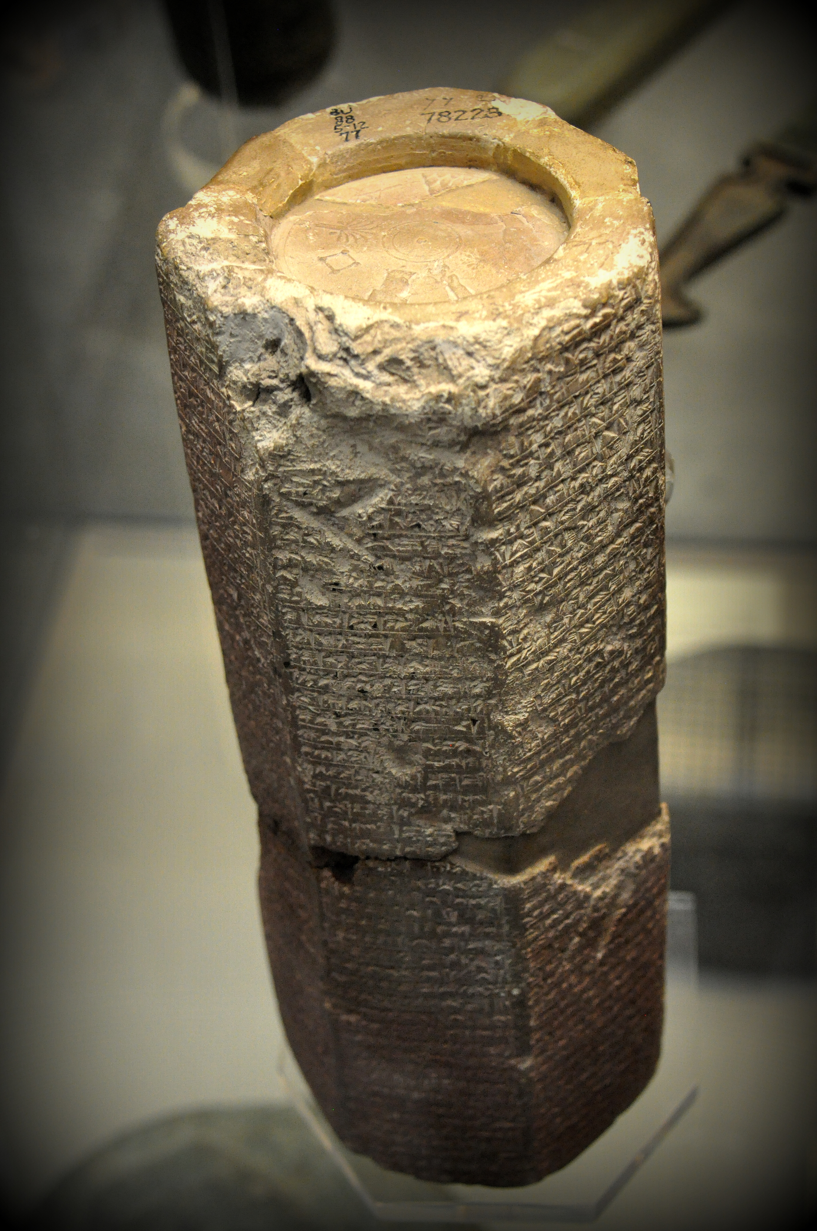 Terracotta record of king Esarhaddon's restoration of Babylon. Circa 670 BCE. From Babylon, Mesopotamia, Iraq. The British Museum, London.